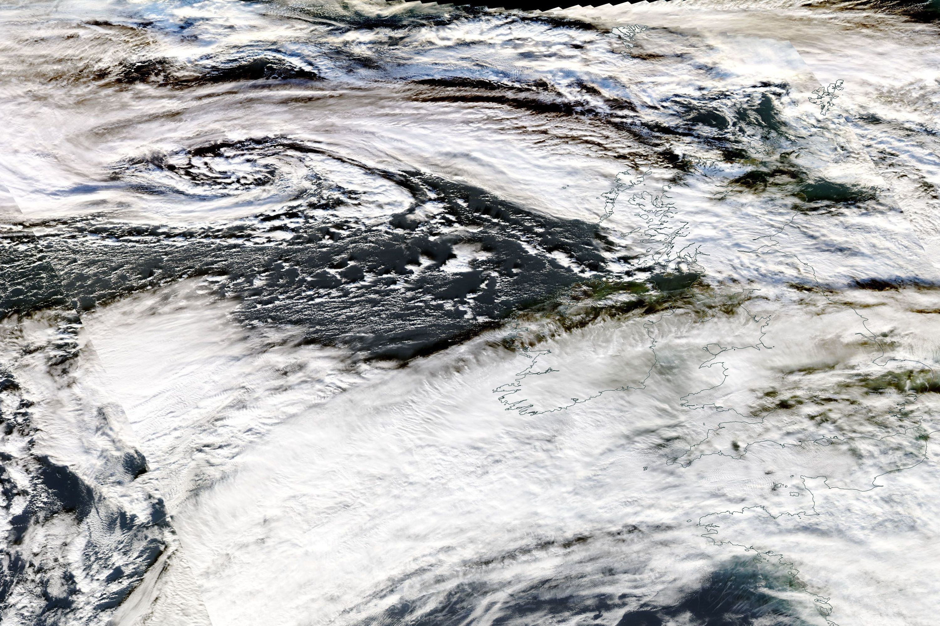 Storm Dylan of the 2017–18 UK and Ireland windstorm season approaching the British Isles on 30 December 2017.